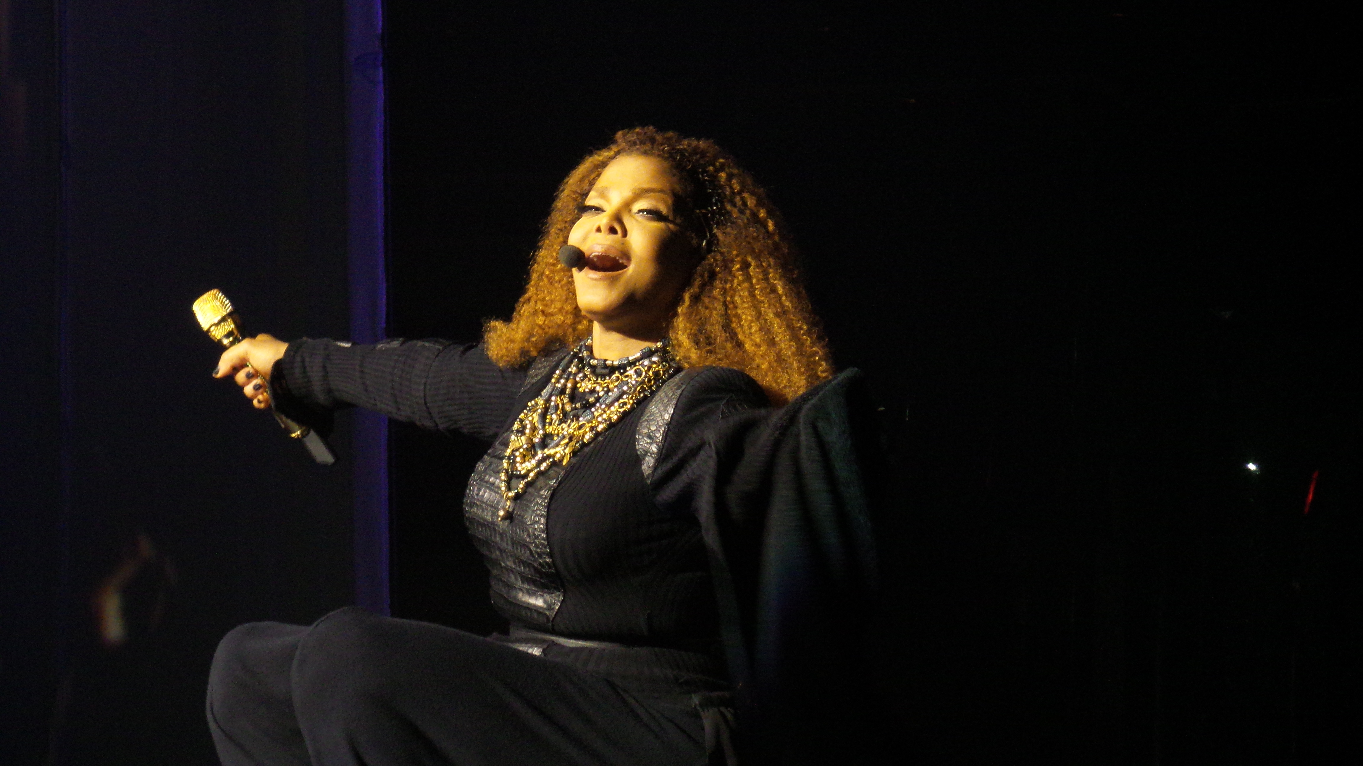 Janet Jackson Unbreakable Tour, Honolulu, Hawaii 2015